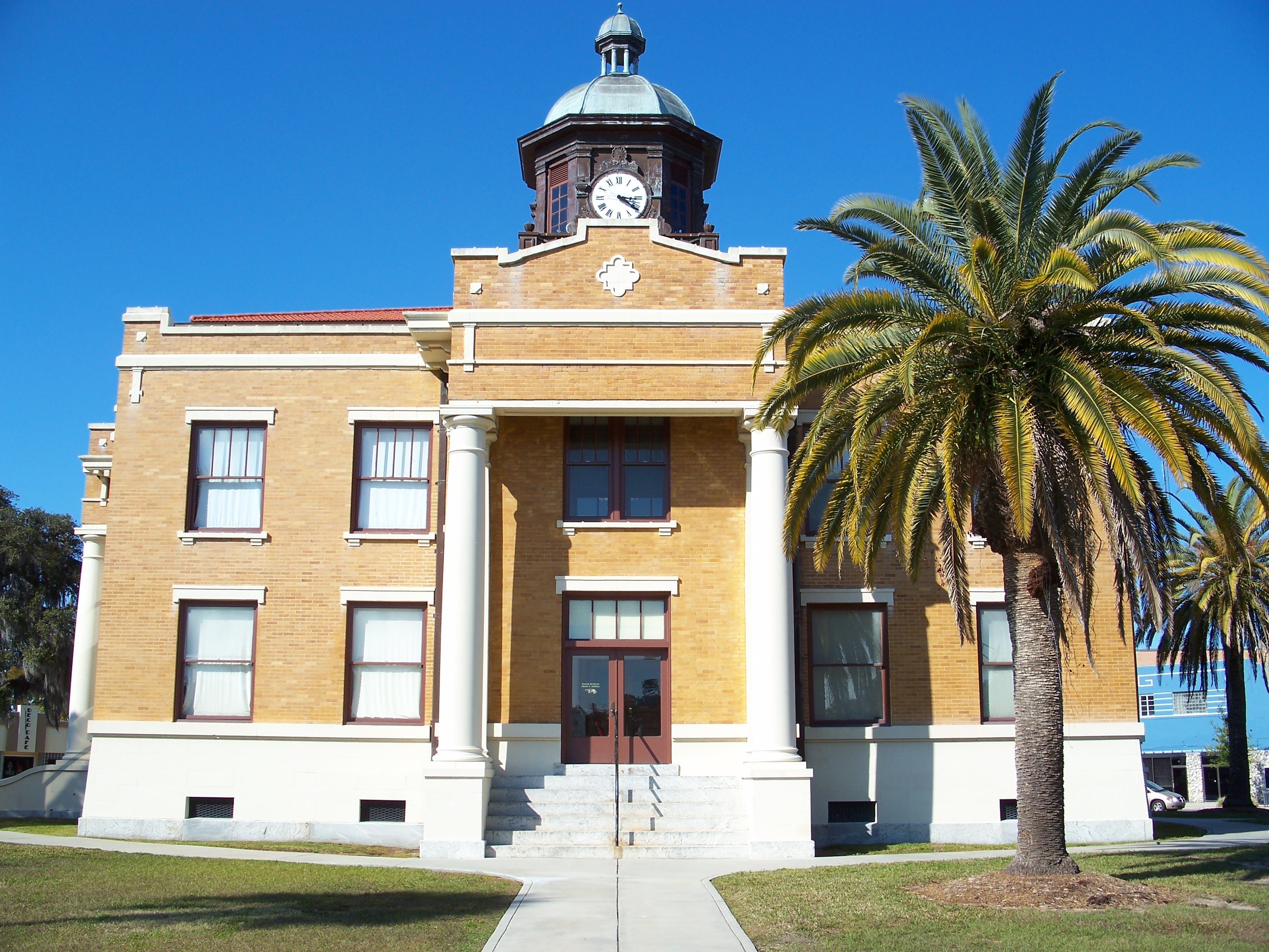 Old Citrus County Courthouse, in Inverness, Florida